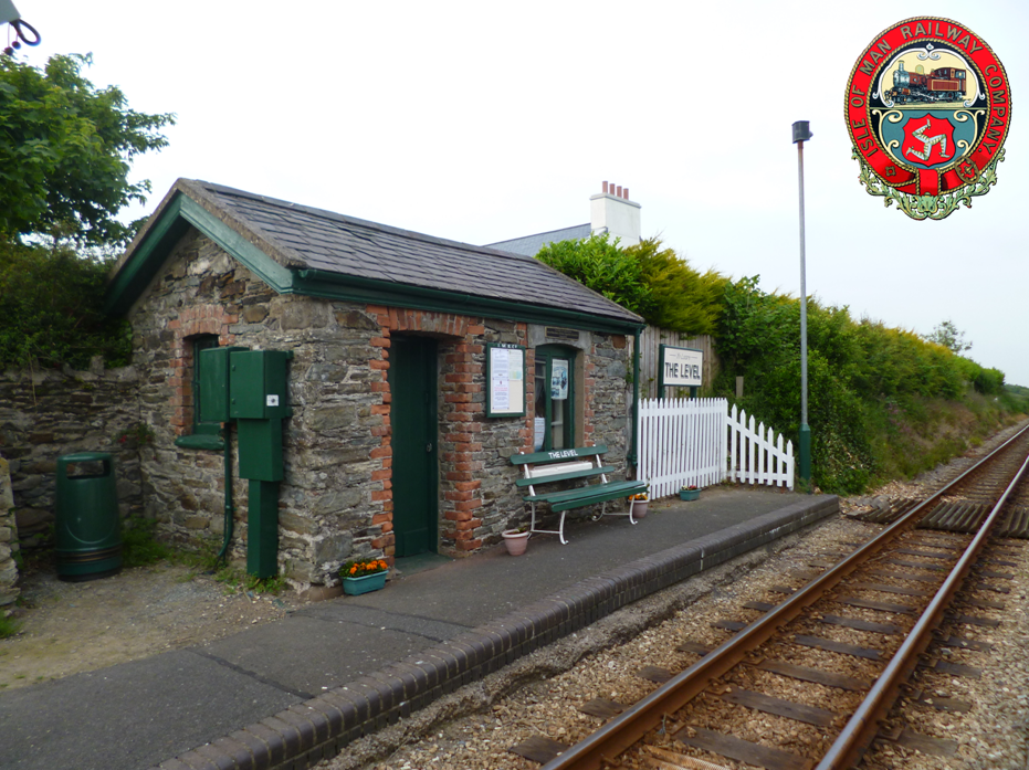 General view of the diminutive request stop/level crossing at The Level on the Isle of Man Railway between Colby and Port St. Mary stations.